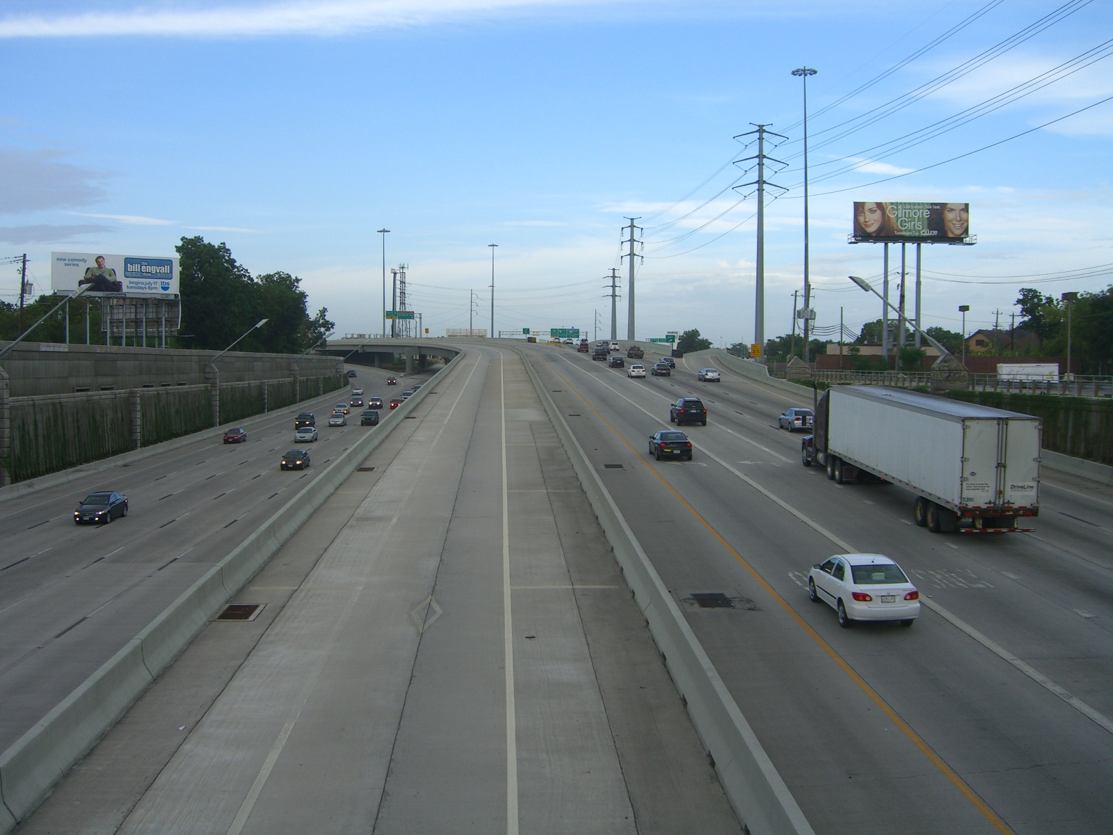 Photo by Nick Juhasz.